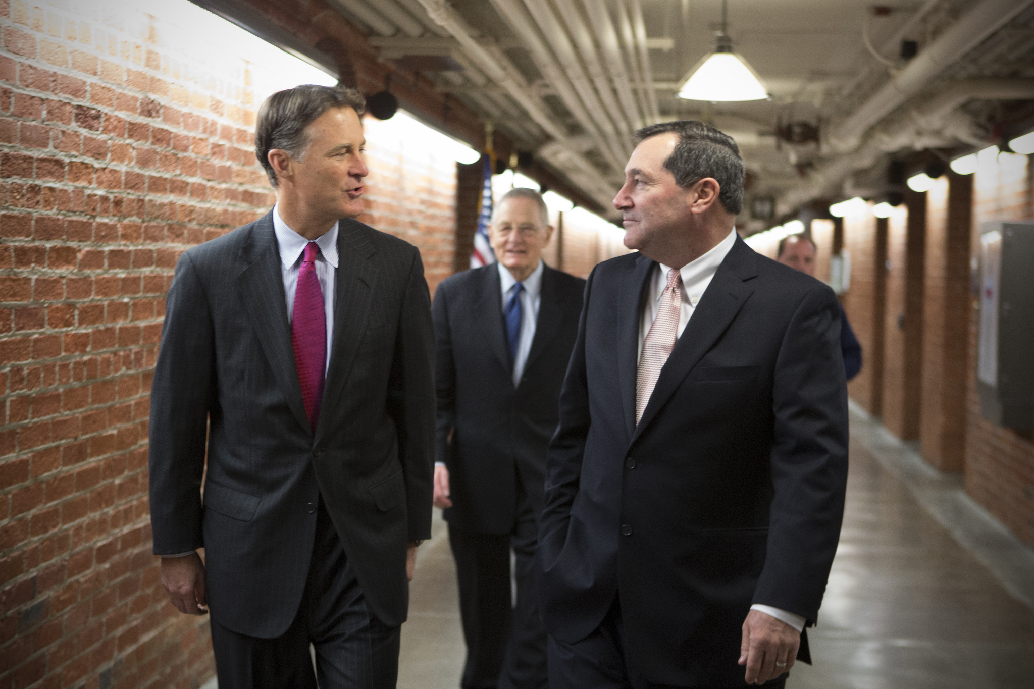 United States Senator Joe Donnelly, with former Senator Evan Bayh of Indiana.